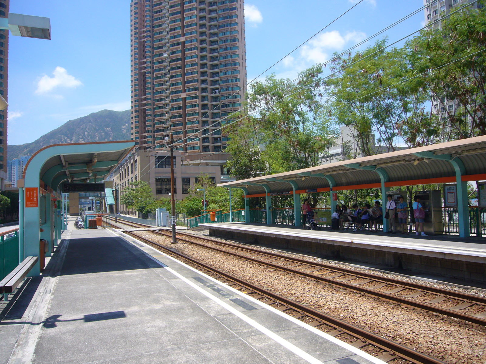 LRT Goodview Garden Stop, MTR HK.